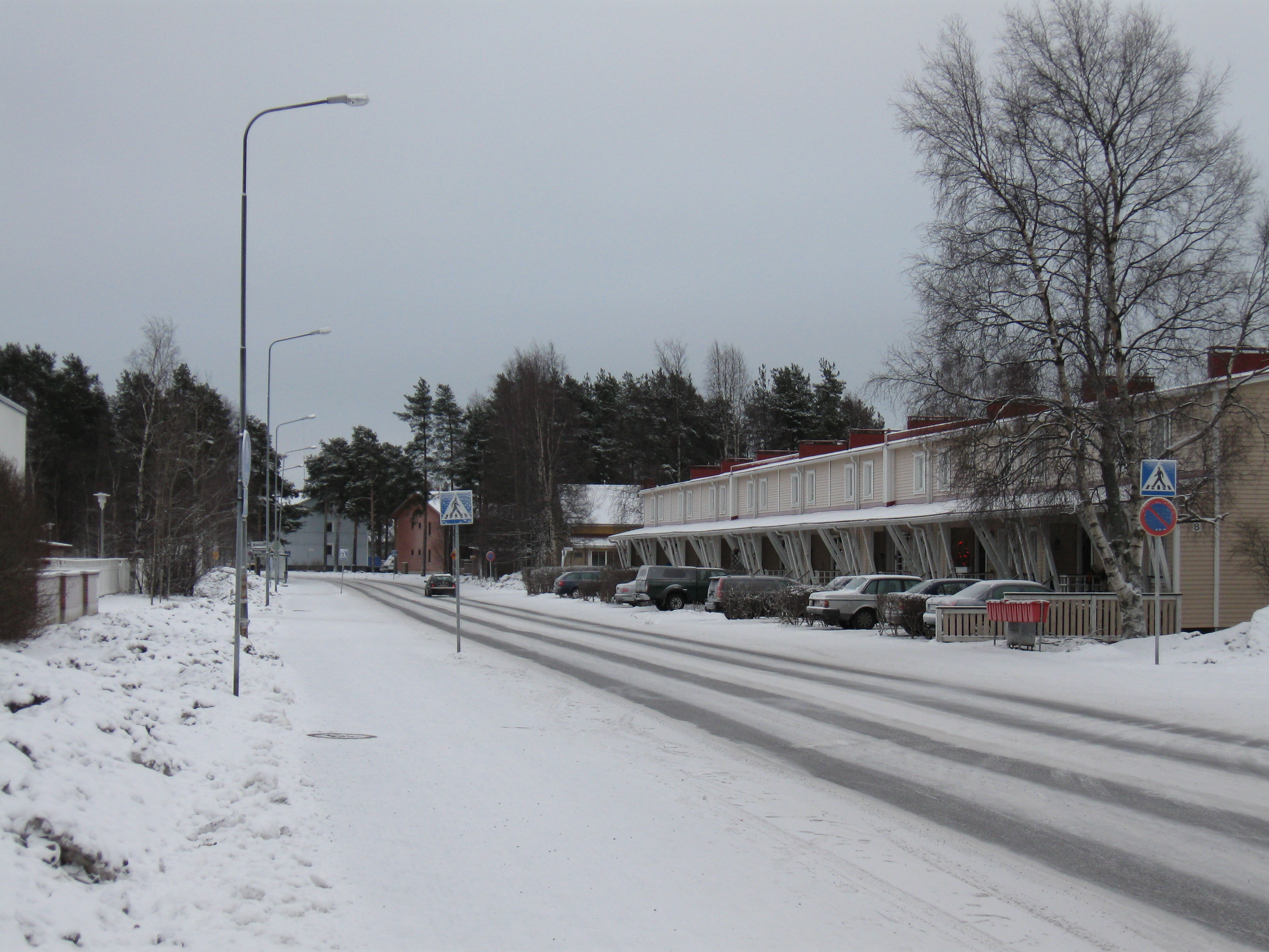 Hanhitie in Höyhtyä, Oulu, Finland.